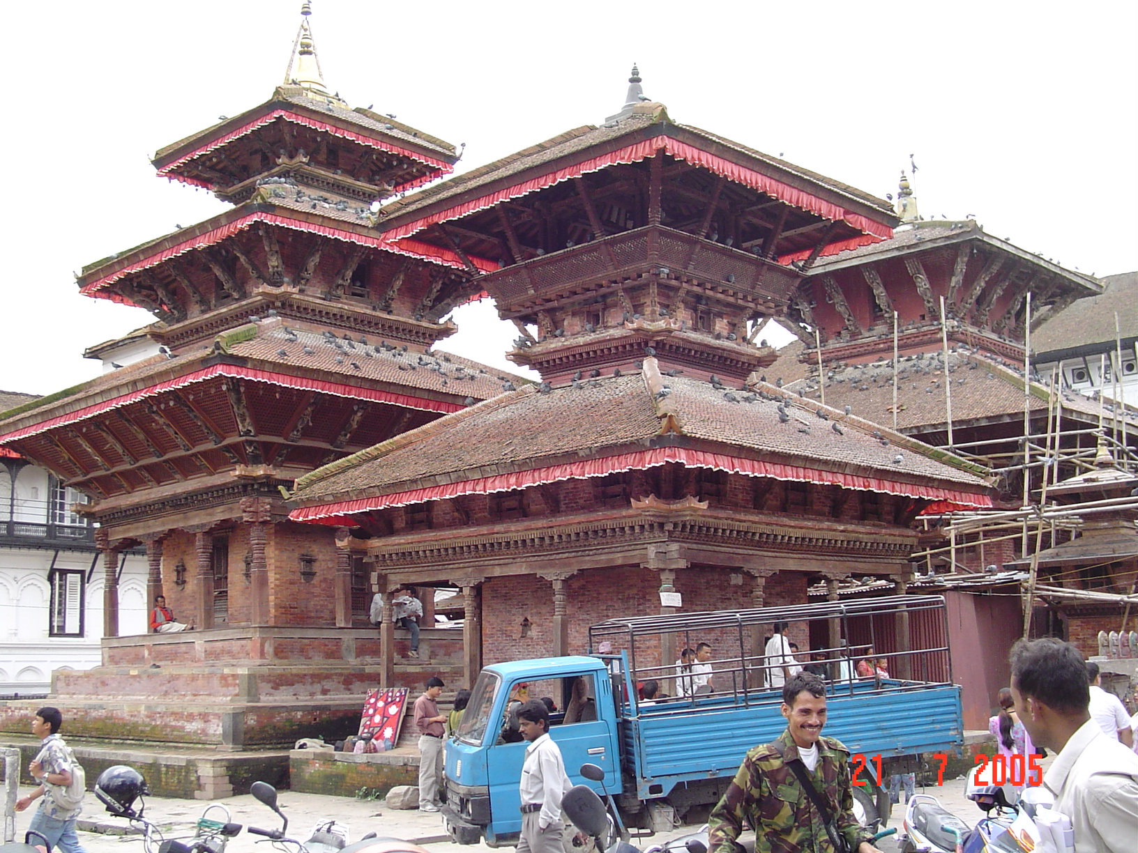 Vishnu Temple (left), Indrapur Temple (center), Jagannath Temple (right)